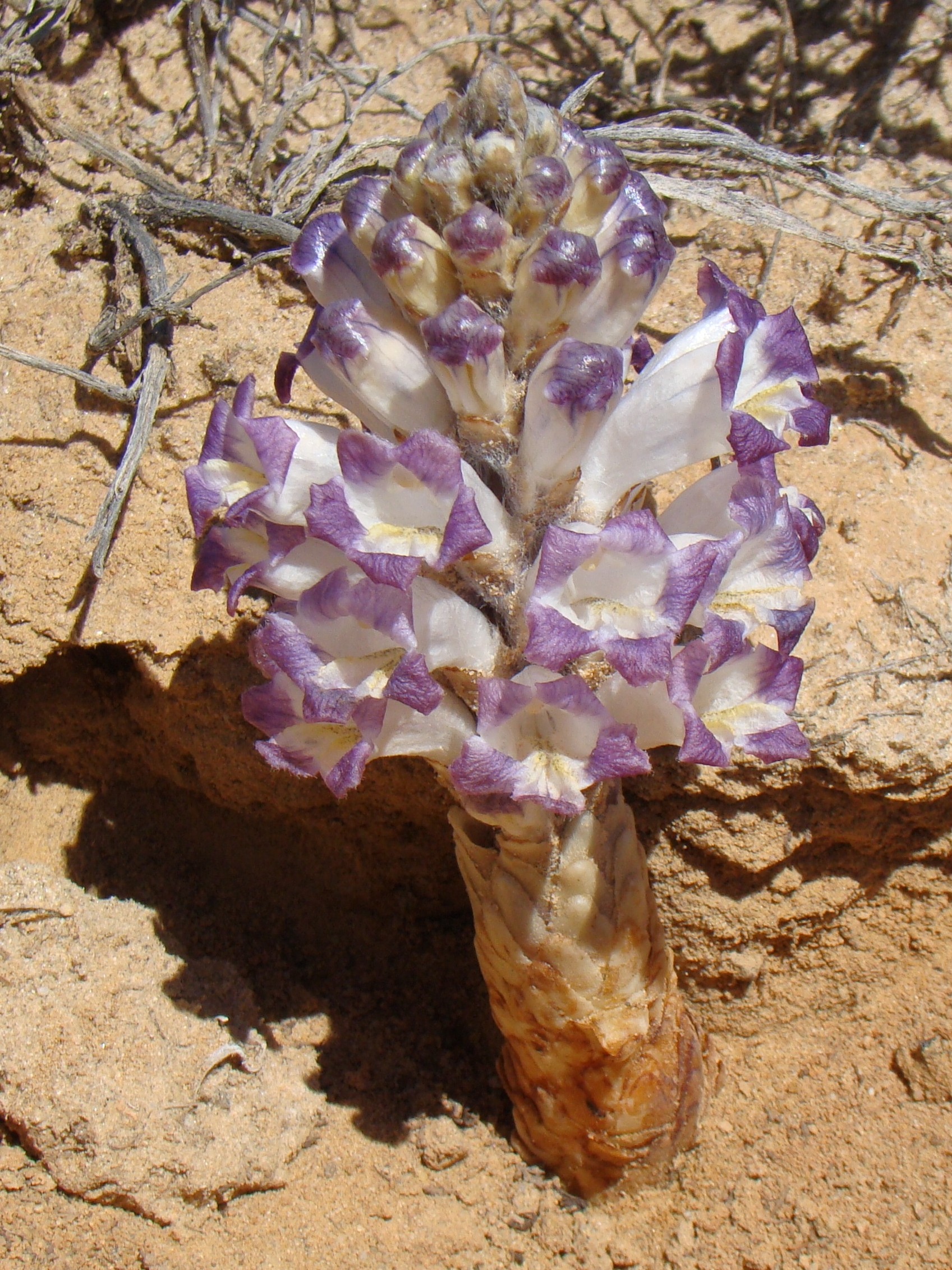 Flower of the parasite plant Cistanche salsa. Baikonur, Kazakhstan.